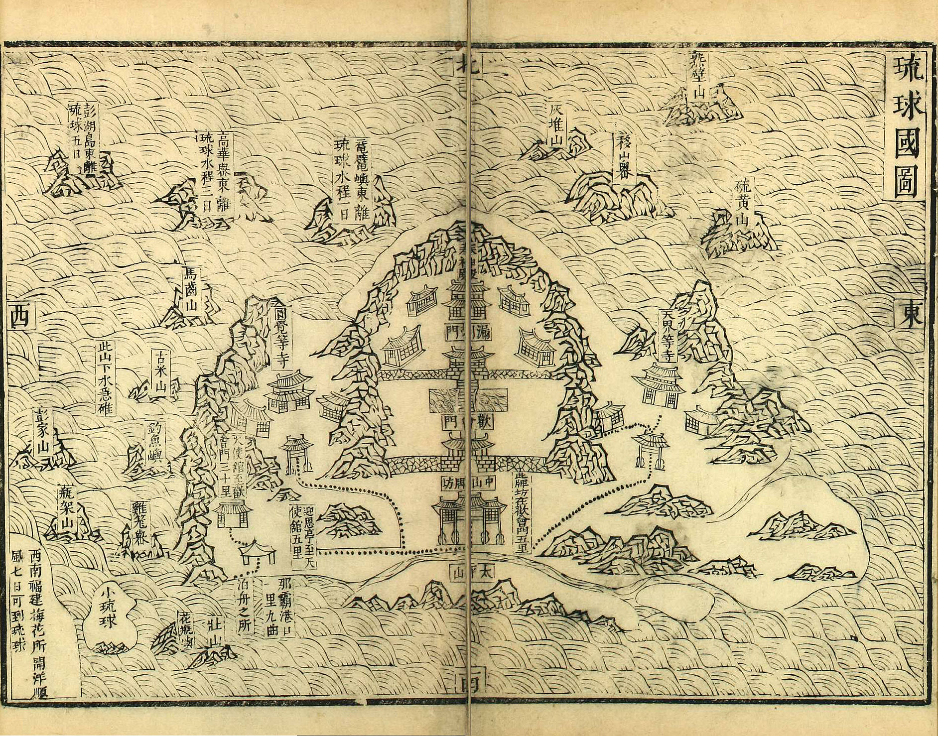 Zheng Ruozeng (鄭若曾, chinese cartographer, 1503 - 1570), Map of Ryukyu Kingdom from Illustrated Description of Ryukyu Kingdom, 16th century.